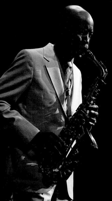 Saxophonist and Blues shouter Eddie Vinson in Paris, France.